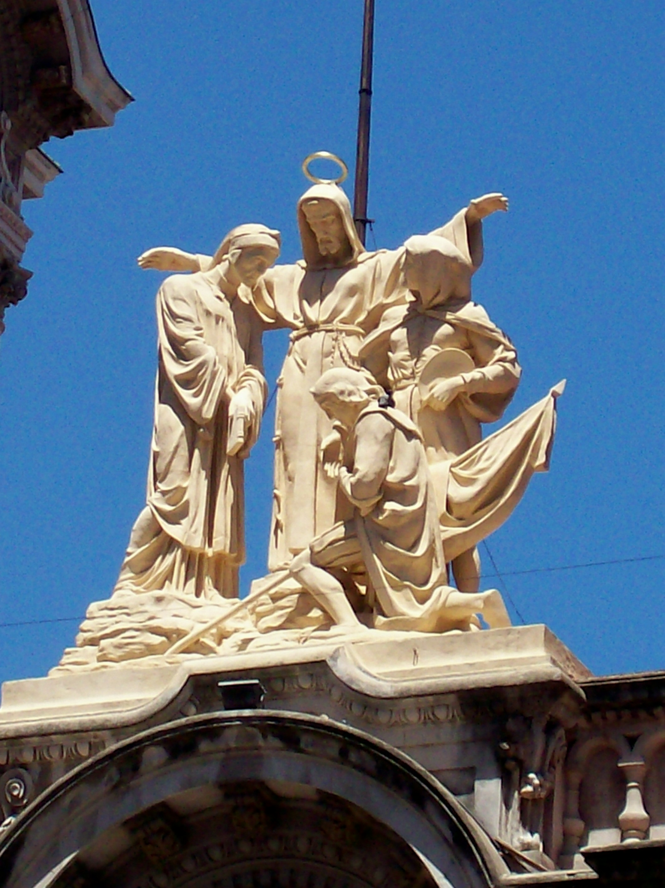 St. Francisco's Chapel in Adolfo Alsina 336, Monserrat, Buenos Aires, Argentina